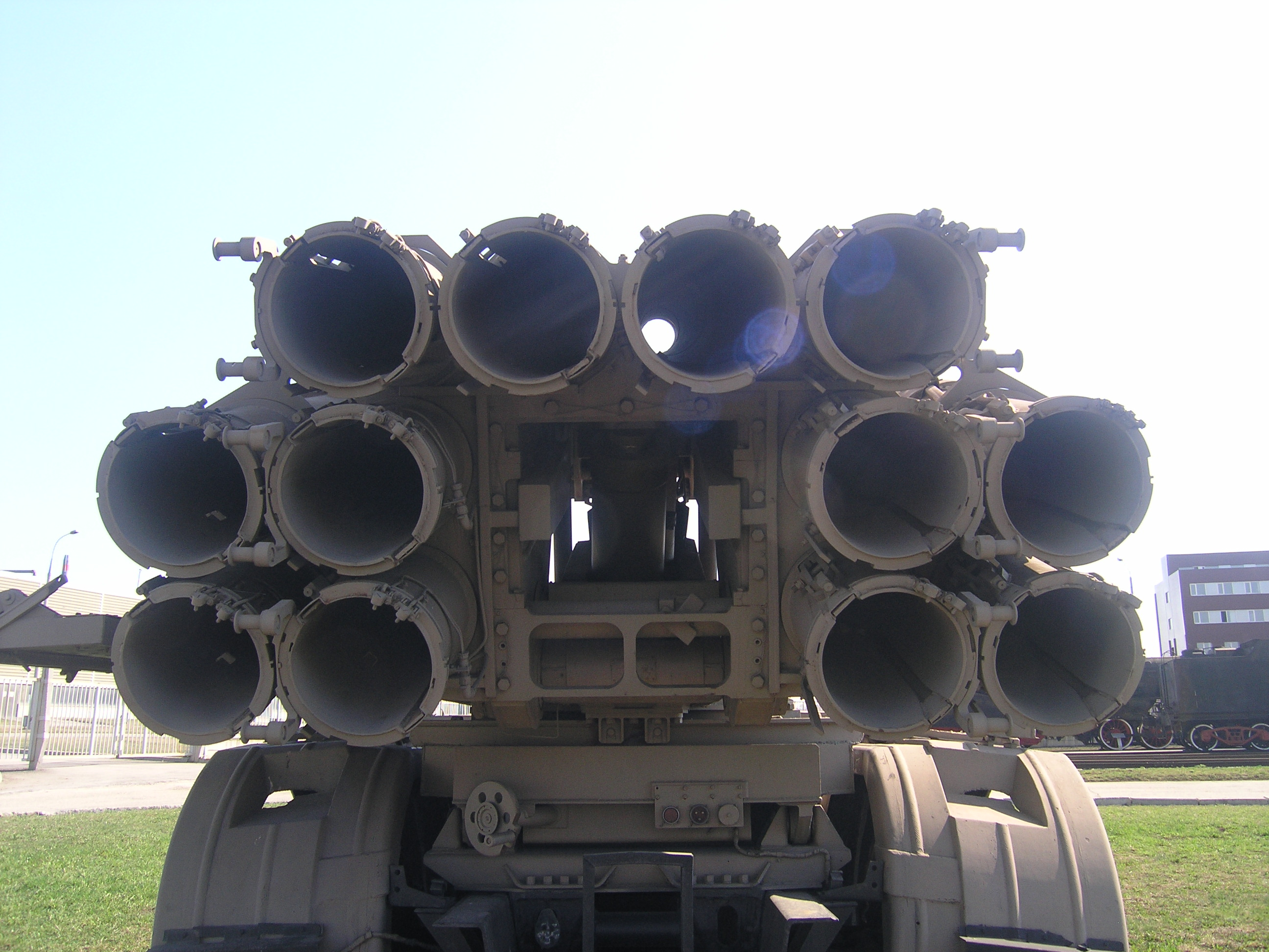 Launcher 9A52 of 300-mm multiple rocket launching system 9K58 «Smerch» in Technical museum Togliatti